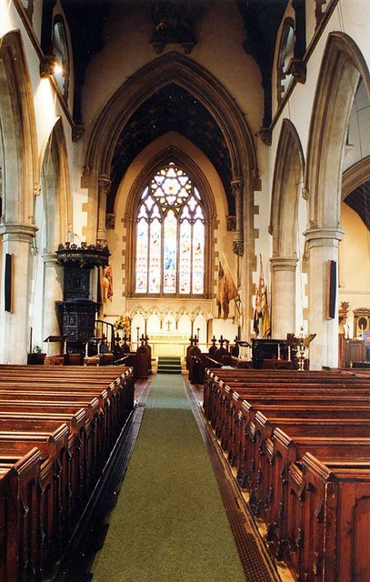 St Thomas, Newport - East end